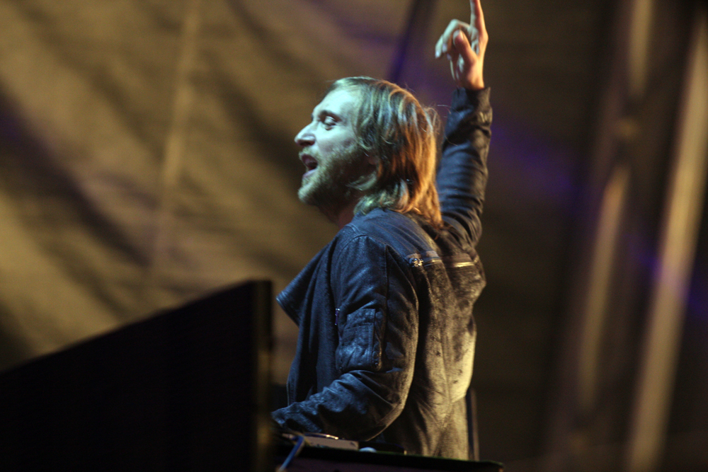 David Guetta Headlines Creamfields, Sydney Australia